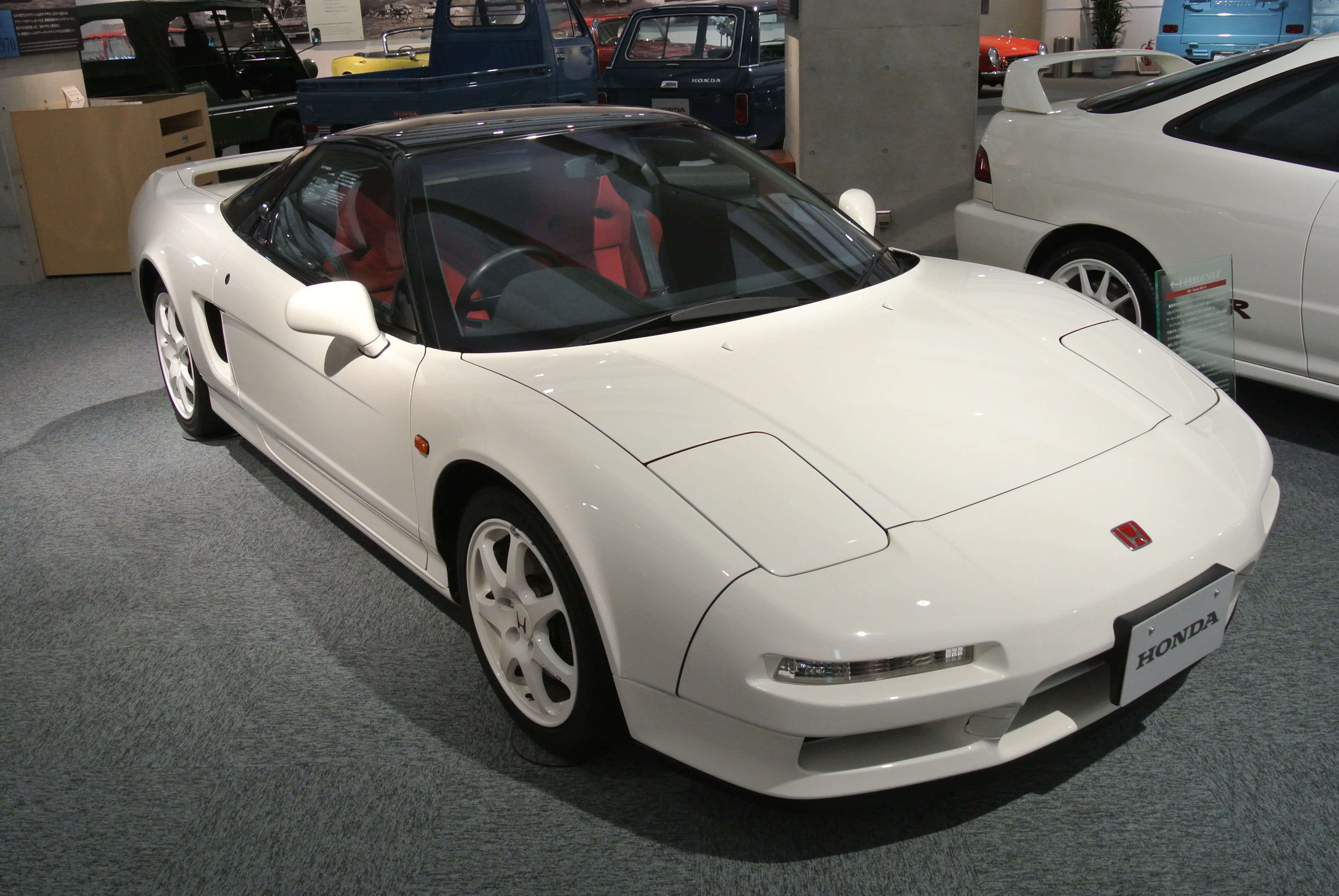 Honda NSX